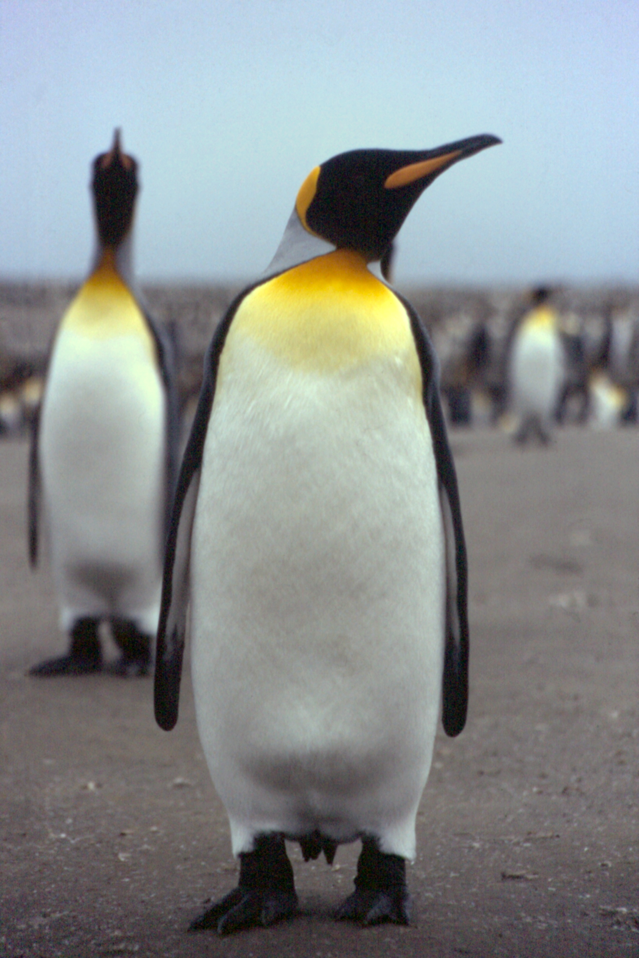 On Feu de Joie beach (West coast of Grande Terre, Kerguelen Island).